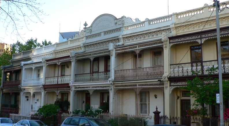 Melbournia Terrace. Drummond Street, Carlton.